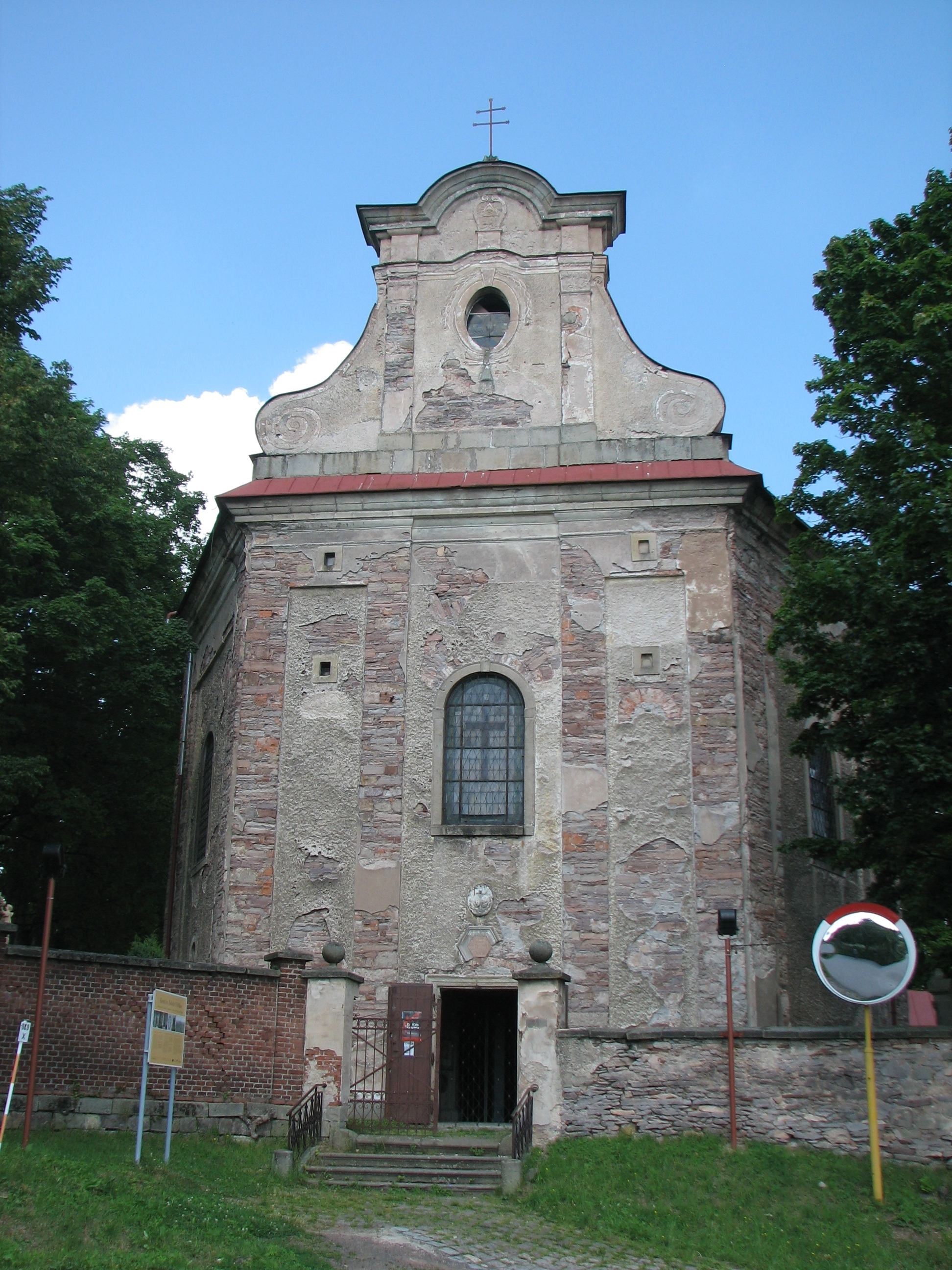 Church of St. James the Great in Ruprechtice, Náchod District, Czech Republic